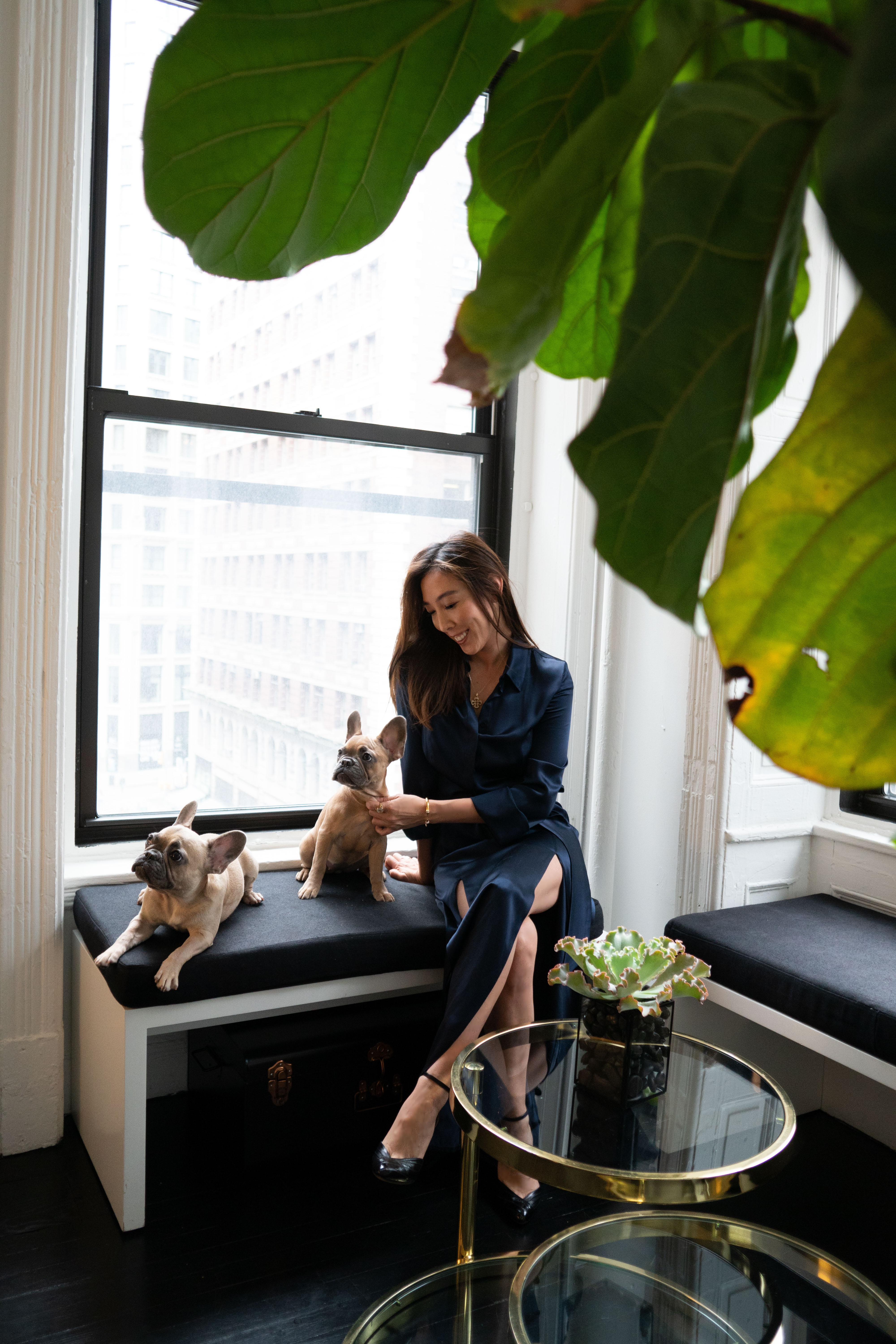 Cynthia K. Sakai in New York City